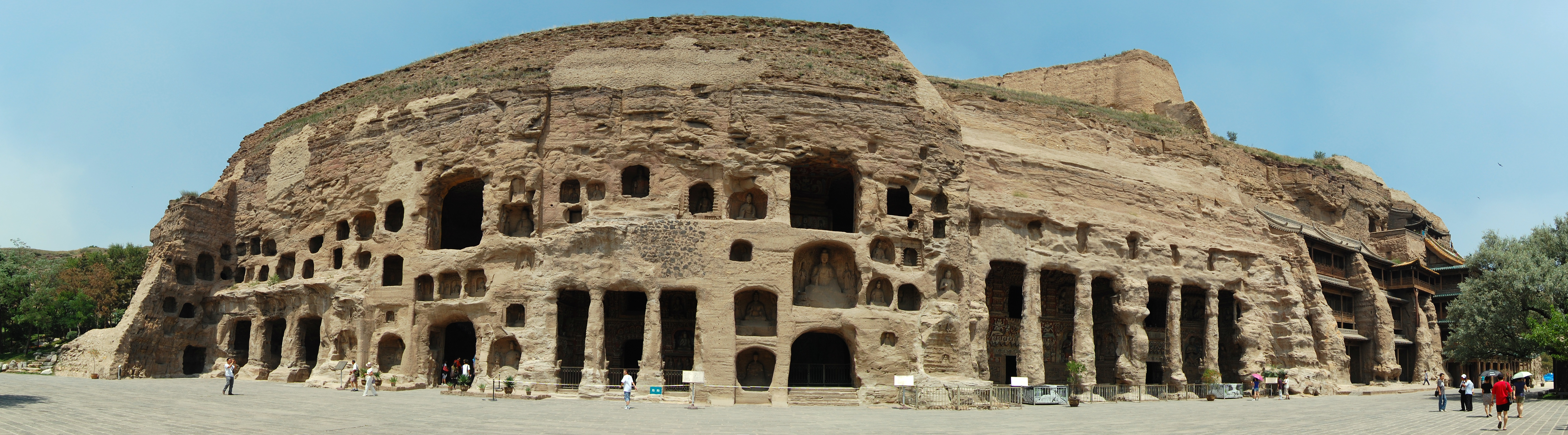 Yungang Grottoes, China.